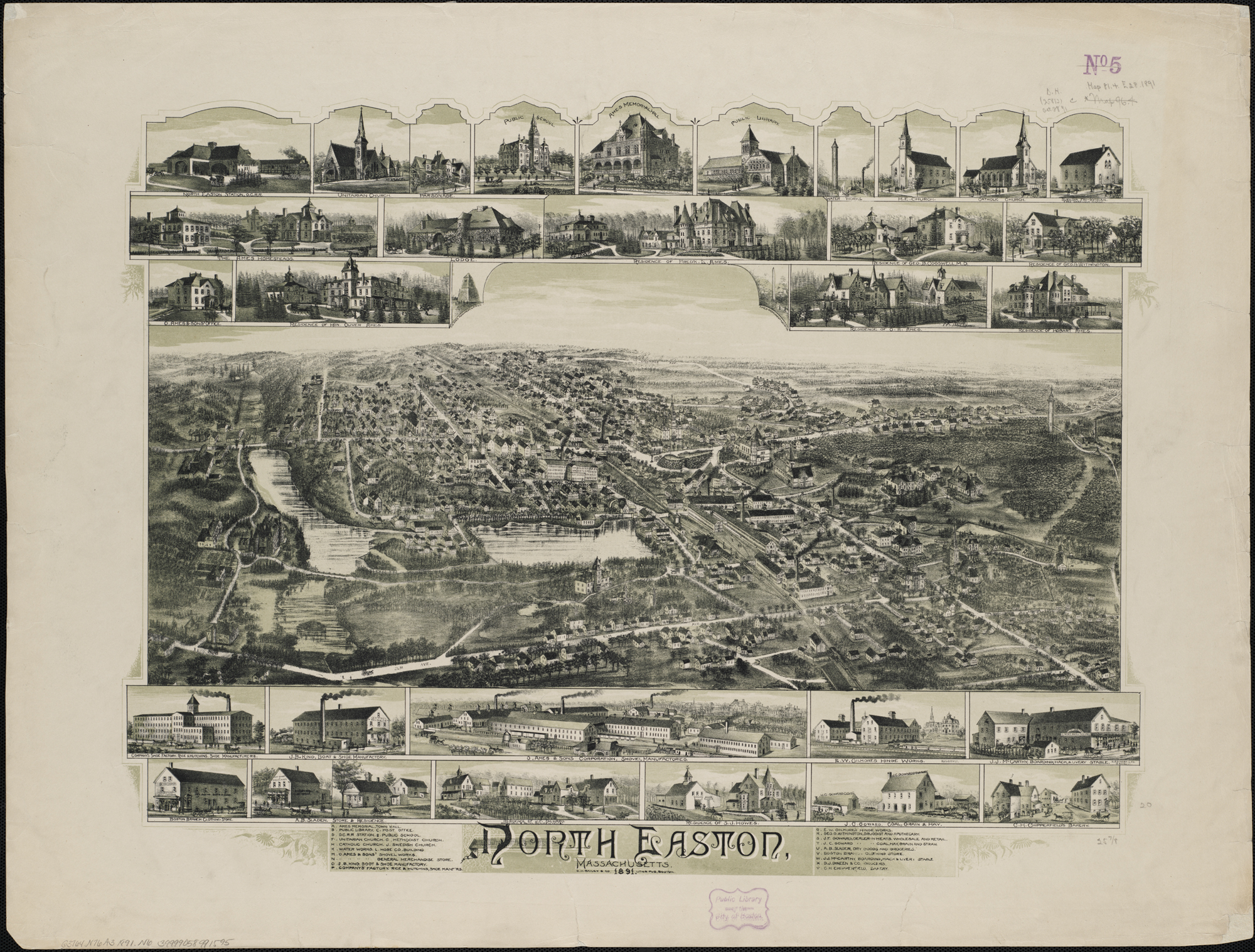 Zoom into this map at . Publisher: O.H. Bailey Date: 1891. Location: Easton (Mass. : Town) Scale: Not drawn to scale. Call Number: G3764.N76A3 1891.N6